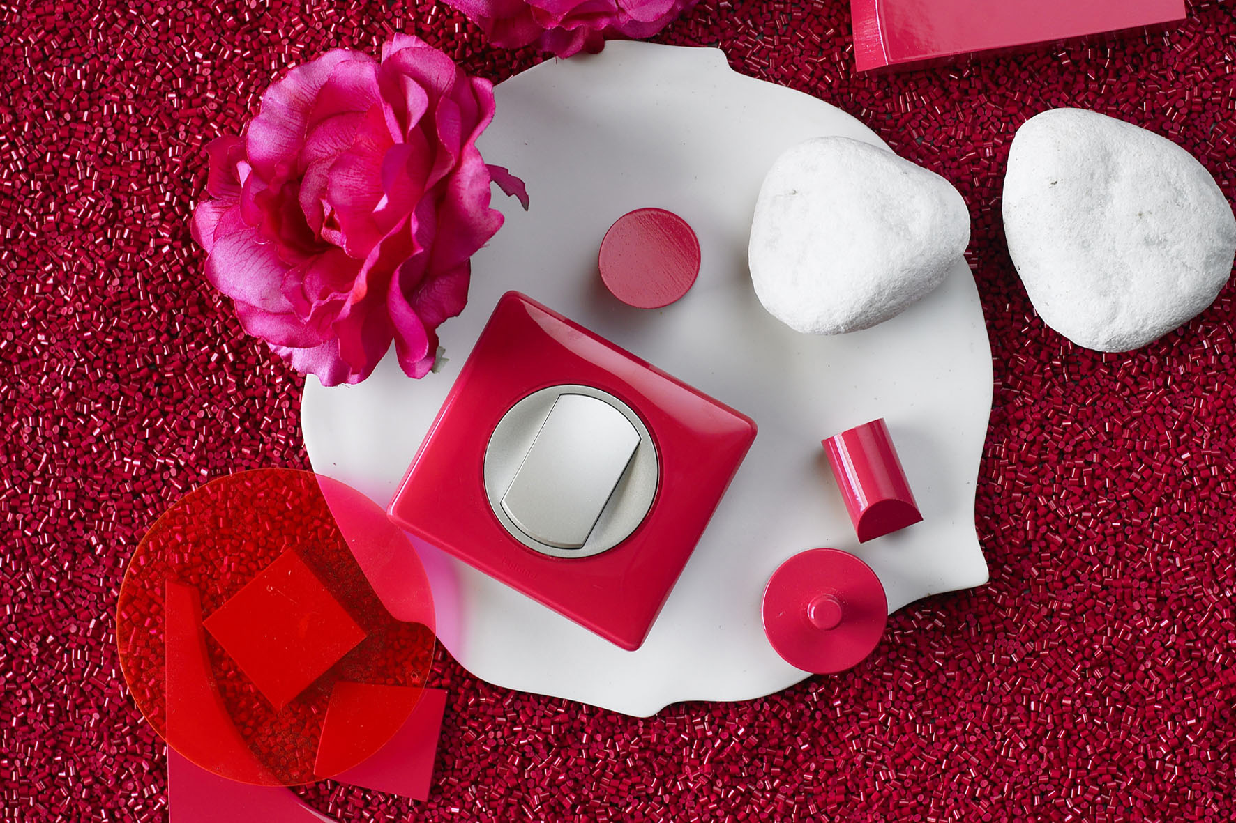 Céliane Switch (Legrand)